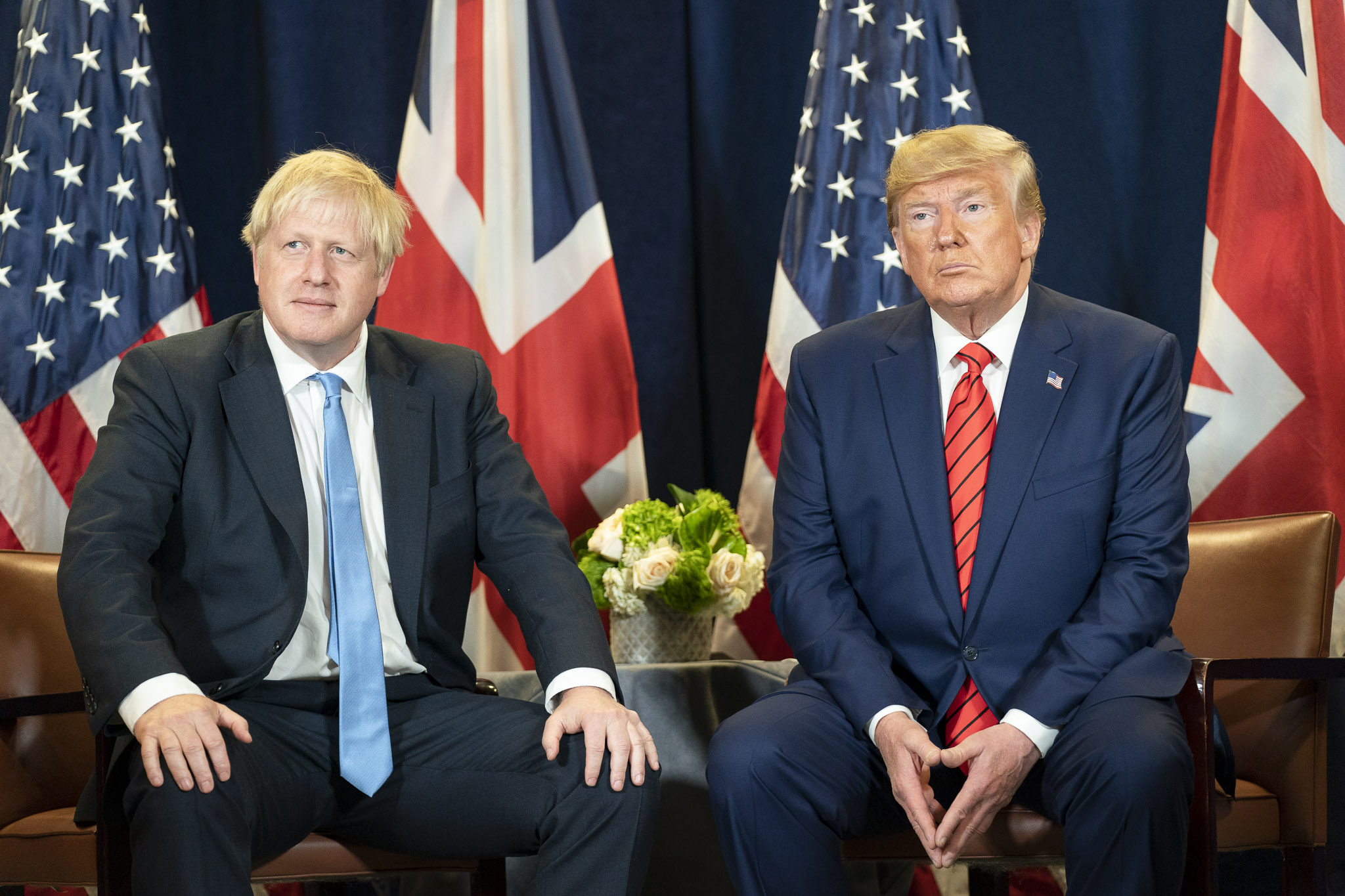 President Donald J. Trump participates in a bilateral meeting with British Prime Minister Boris Johnson Tuesday, September 24, 2019, at the United Nations Headquarters in New York City. Vice President Mike Pence attends. (Official White House Photo by Shealah Craiughead)